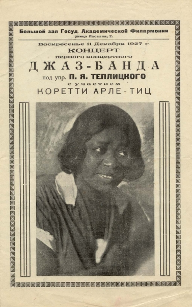 The poster of concert of "First Concert Jazz-Band" directed by Leopold Teplitsky with participation of singer Coretti Arle-Tiz, Leningrad, 1927, December 11.